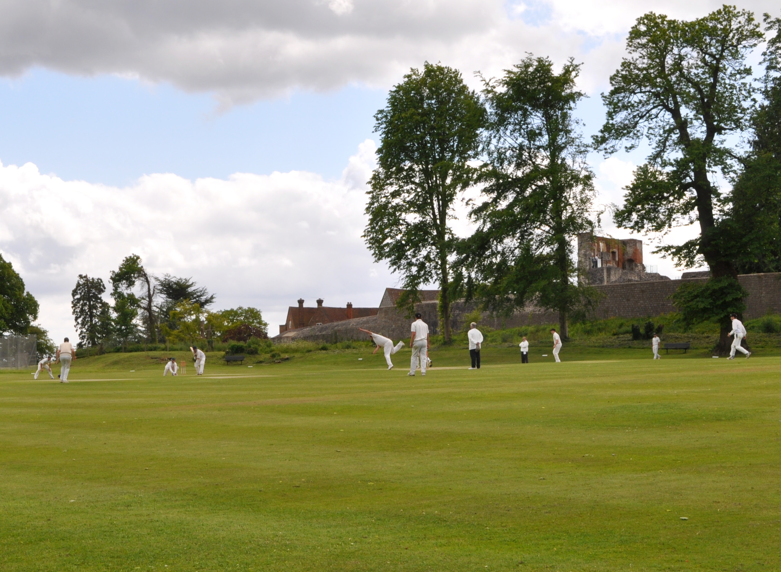 6 June 2015 game between Farnham CC and Chipstead, Coulsdon and Walcountians CC with Farnham castle in the background